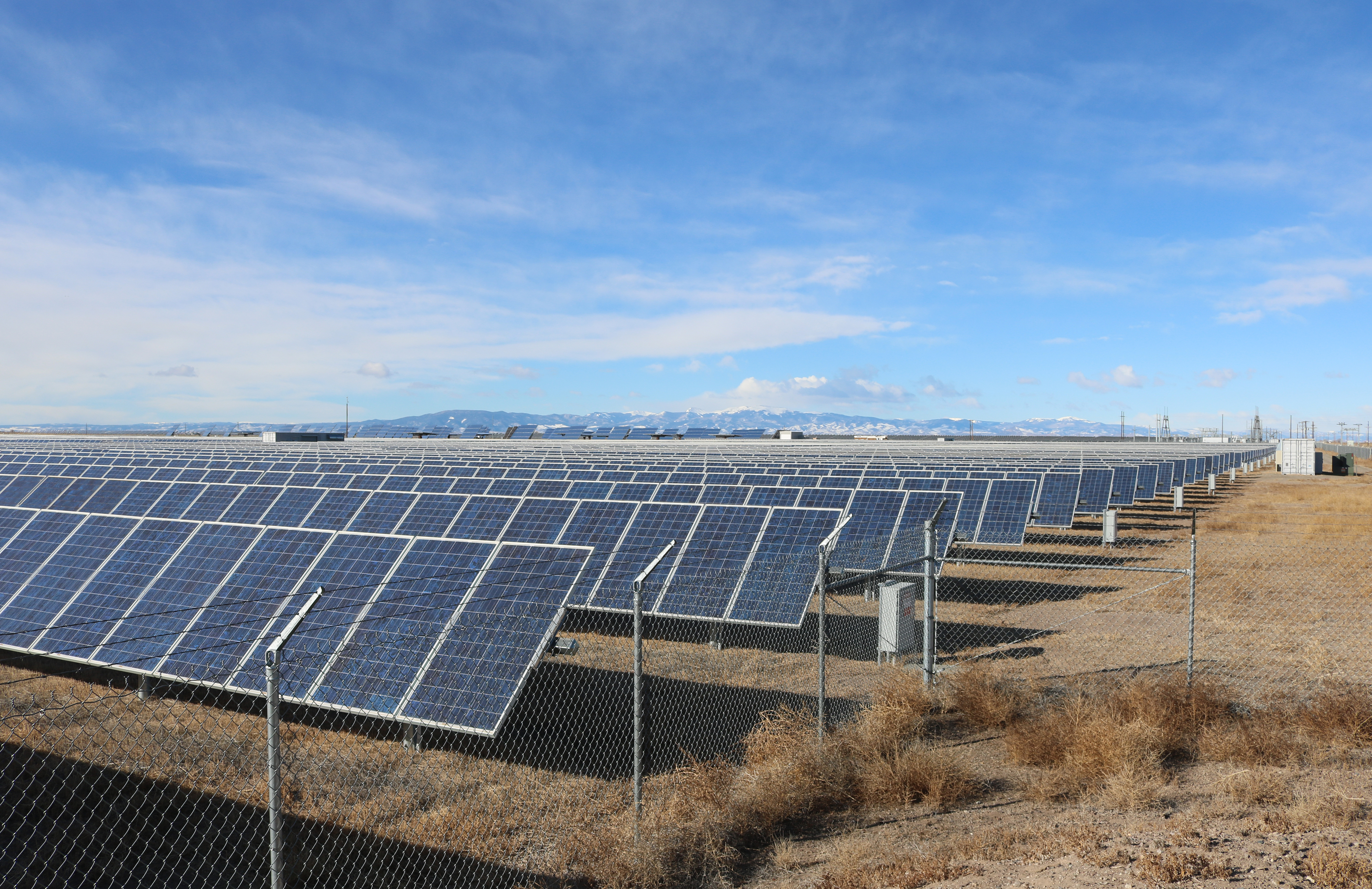 The Alamosa Photovoltaic Power Plant, located along Colorado State Highway 17 north of Mosca, Colorado.